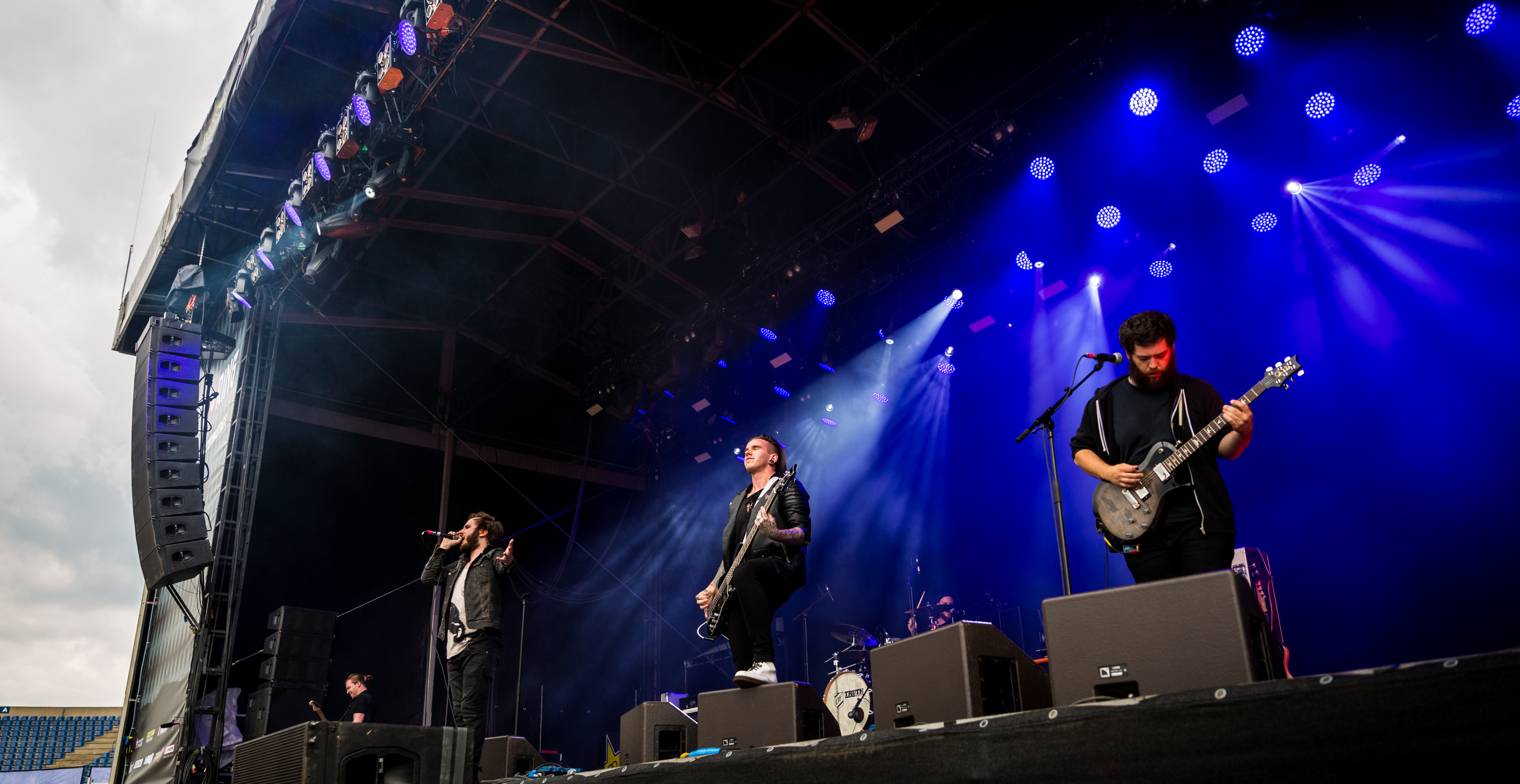 As Lions - Rock am Rimg 2017